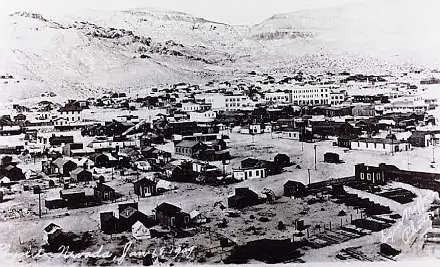 Postcard of Rhyolite